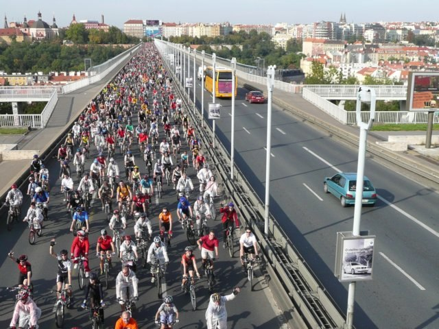 Cyclists on a highway durch car free day in Czech Republic